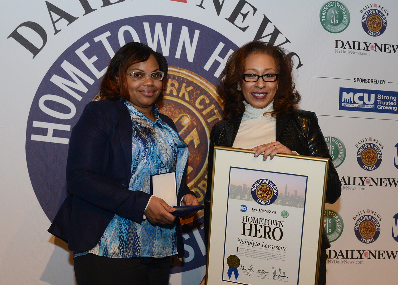 The Second Annual Daily News Hometown Heroes in Transit Awards at the Edison Ballroom on Wed., January 29, 2014 recognized 15 exemplary MTA New York City Transit employees. Tamara Tunie presents award to Naholyta Levasseur. Photo: Marc A. Hermann / MTA New York City Transit